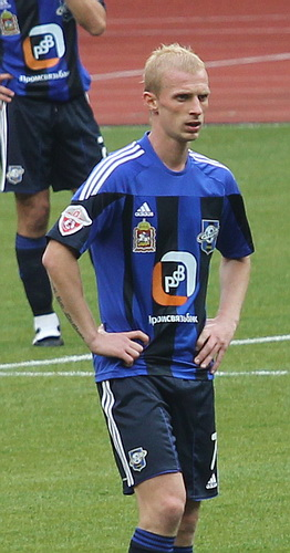 Petr Nemov